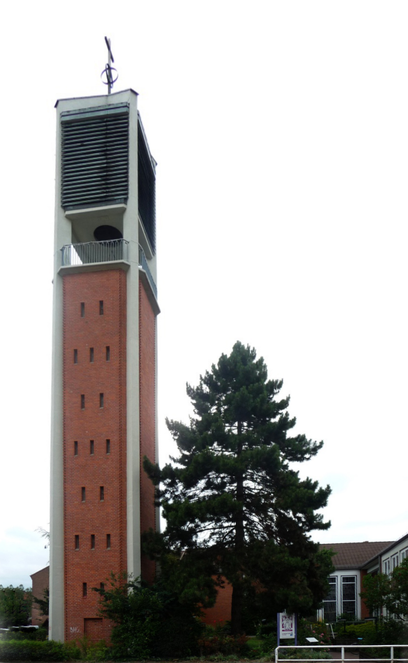 Matthias-Claudius-Church in Bremen-Neustadt